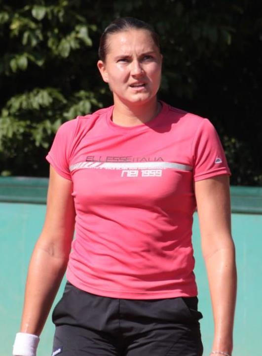 Nadia Petrova at 2009 Roland Garros, Paris, France